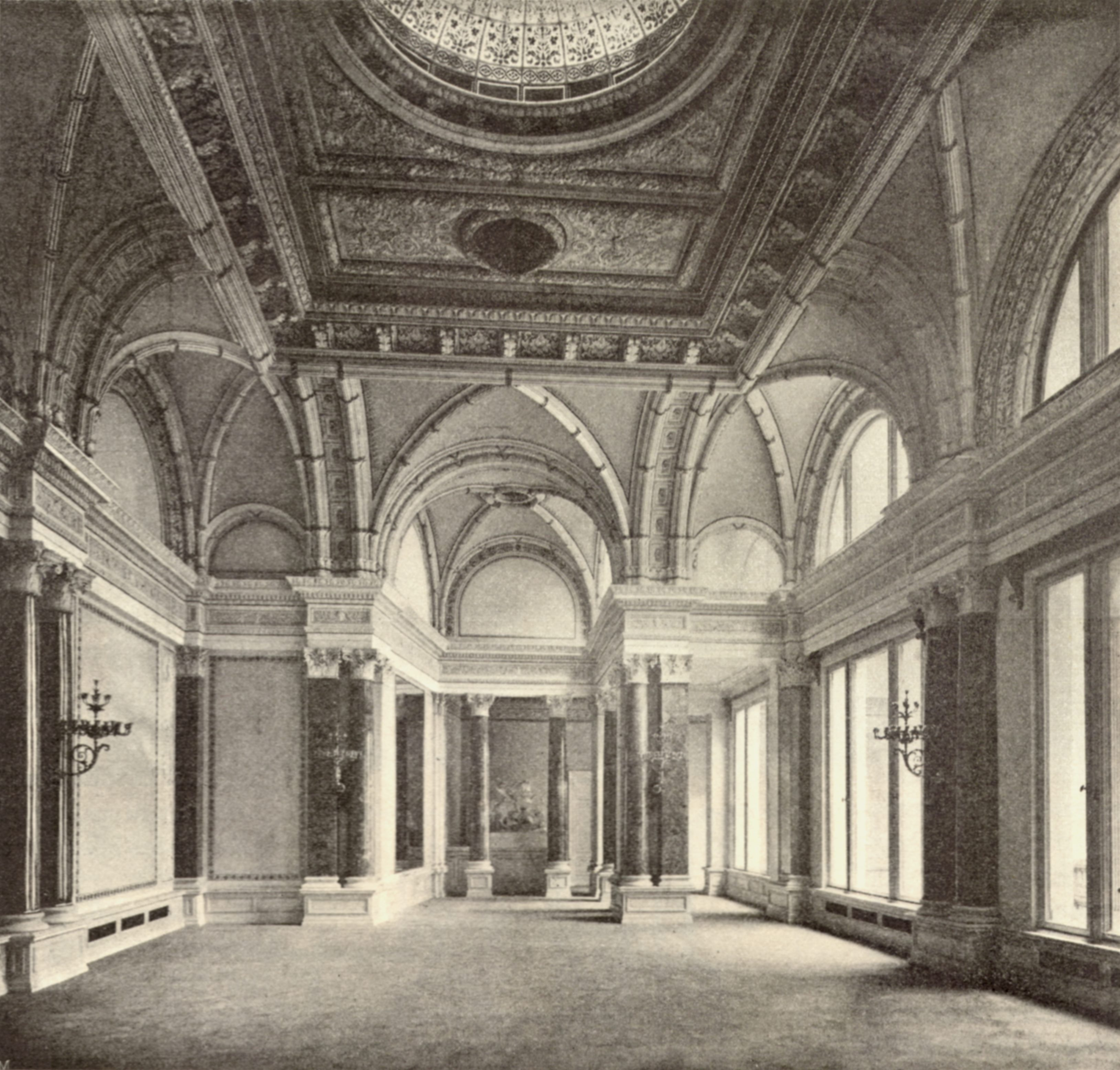 Berlin - ballroom in the Palais Strousberg at Wilhelmstraße 70